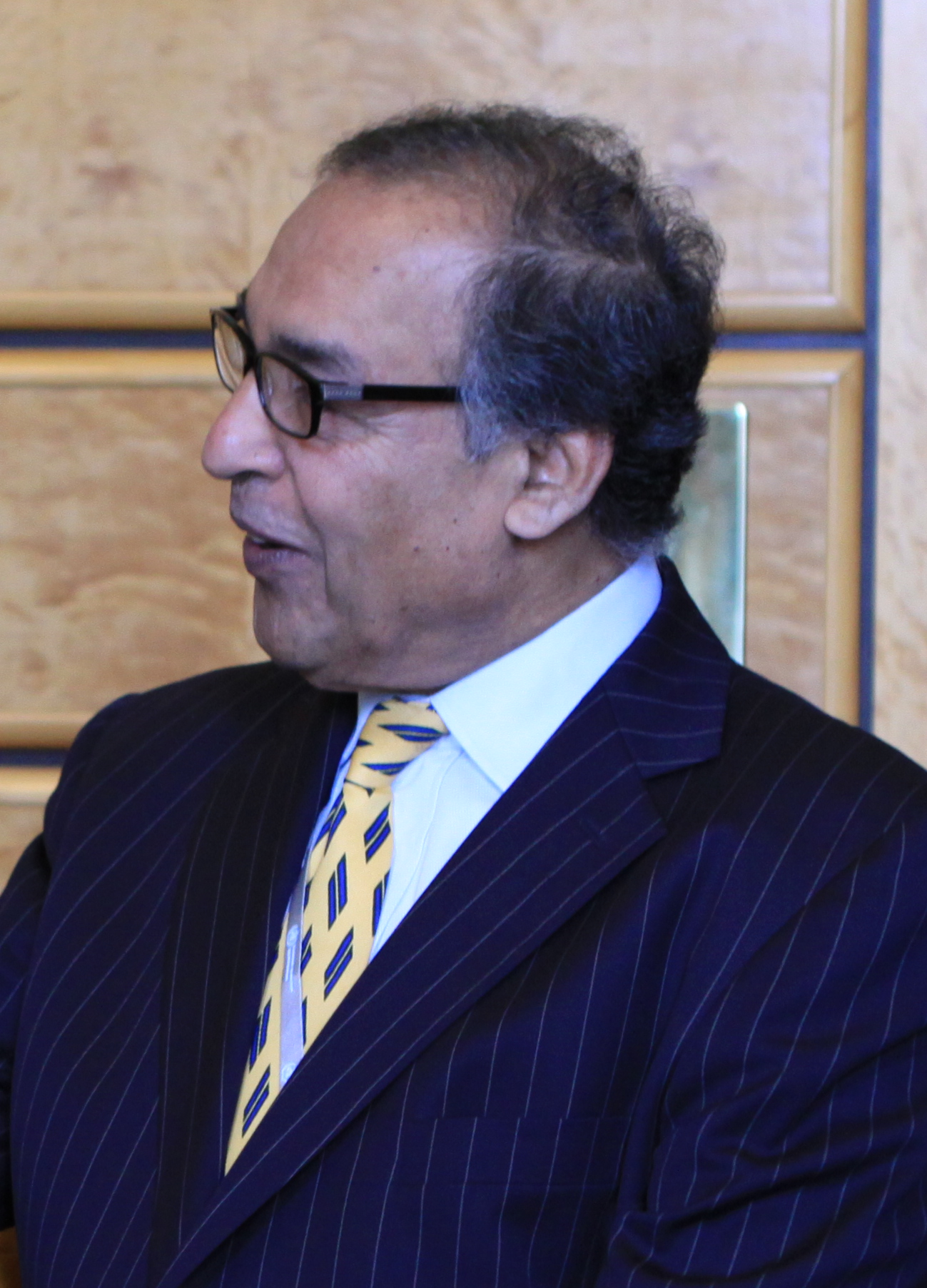 Secretary Sebelius and Pakistan's Minister of Health Makhdoom Shahabuddin at the World Health Assembly 2010 in Geneva, Switzerland US Mission Photo: Eric Bridiers